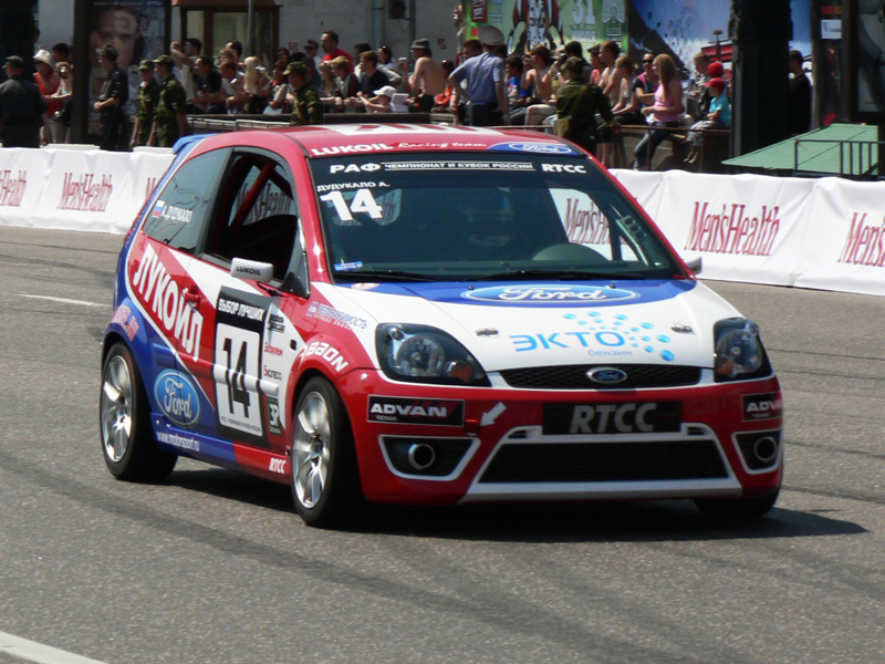 Alexey Dudukalo at Moscow City Racing 2008